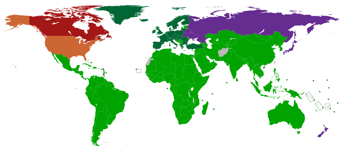 Kyoto Protocol 2012-2020 Extension participation map 2012